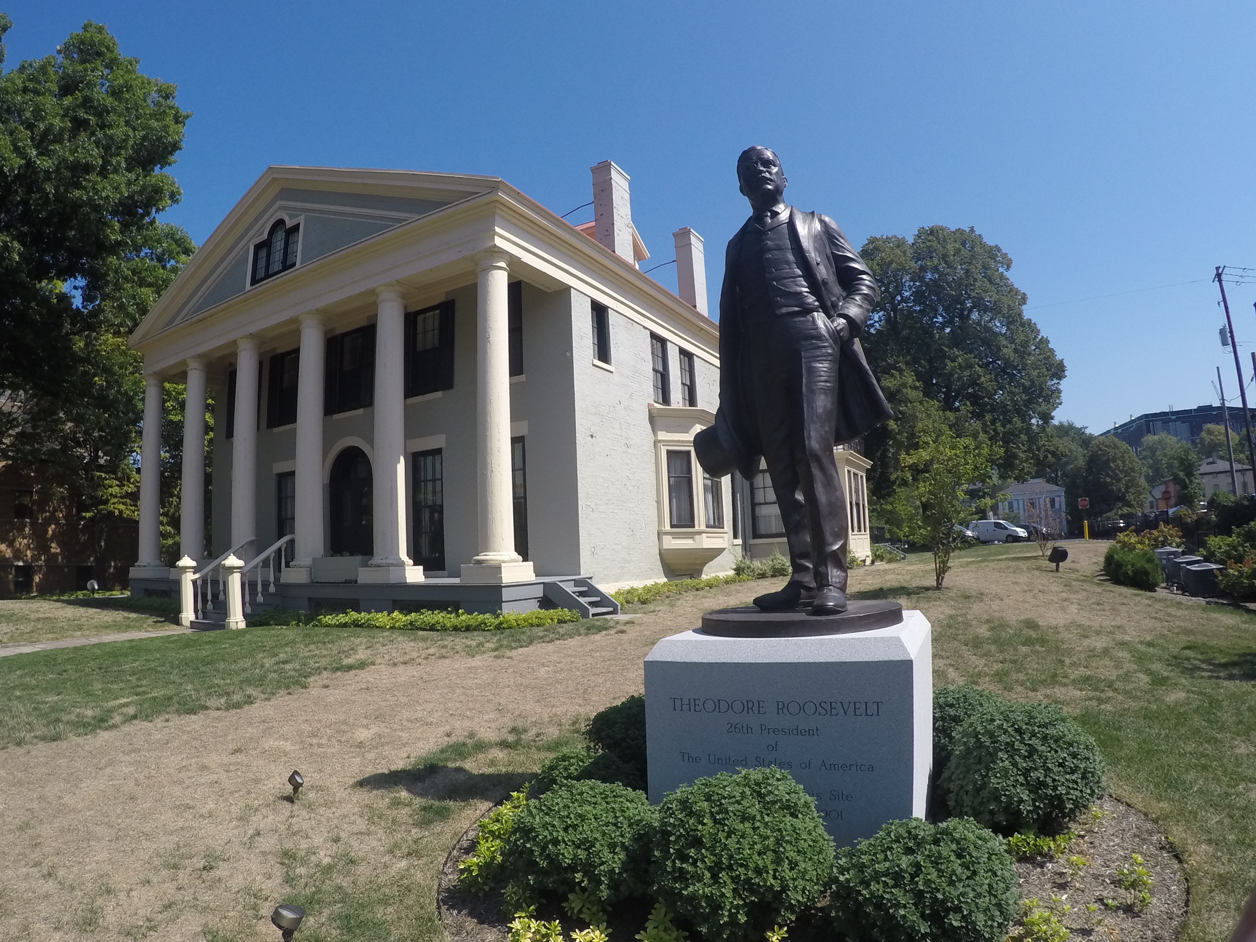 Theodore Roosevelt Monument, with inaugural site in the background.